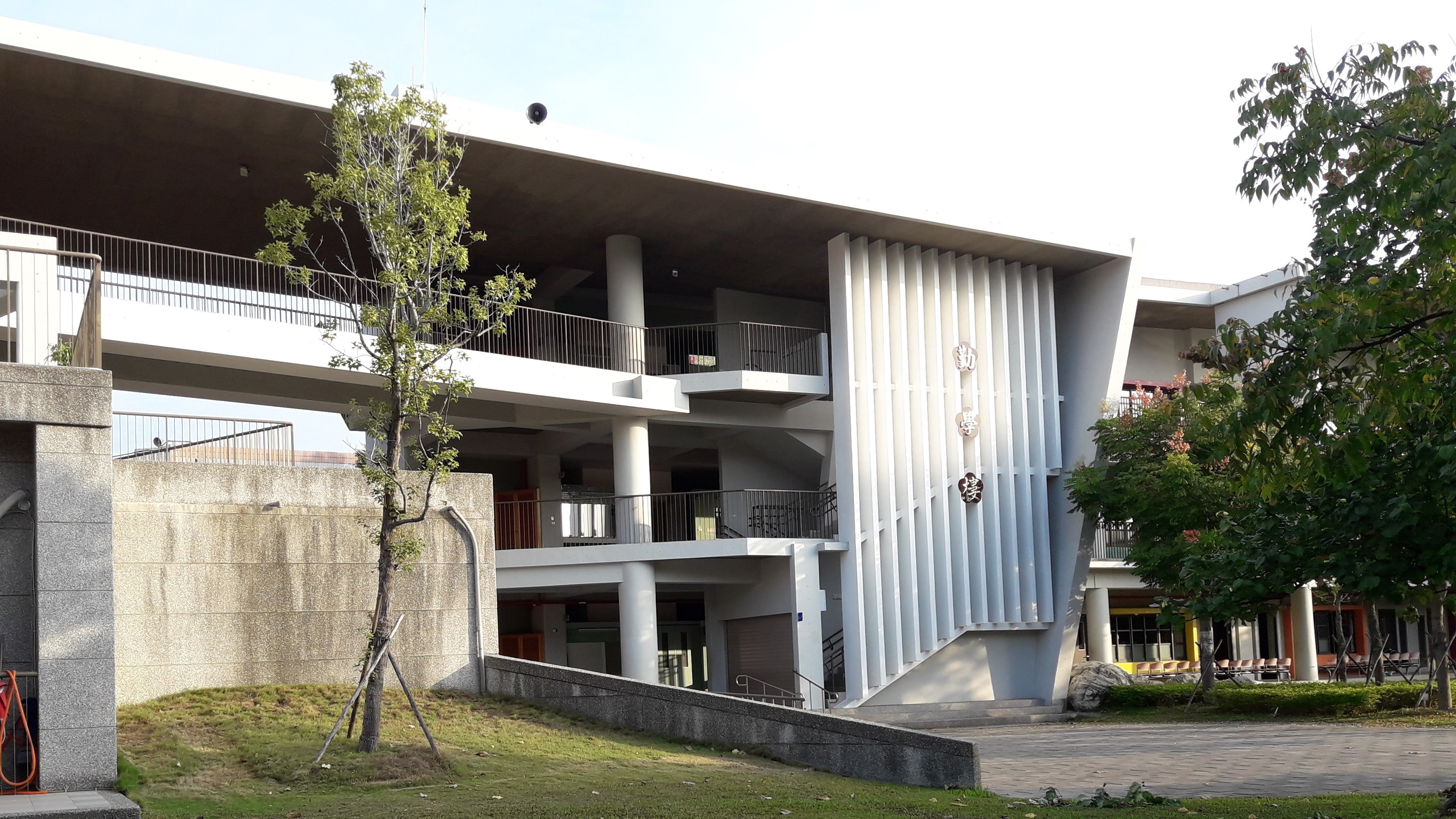 The Chin-Hsueh Building of Tuku JHS, Yunlin County